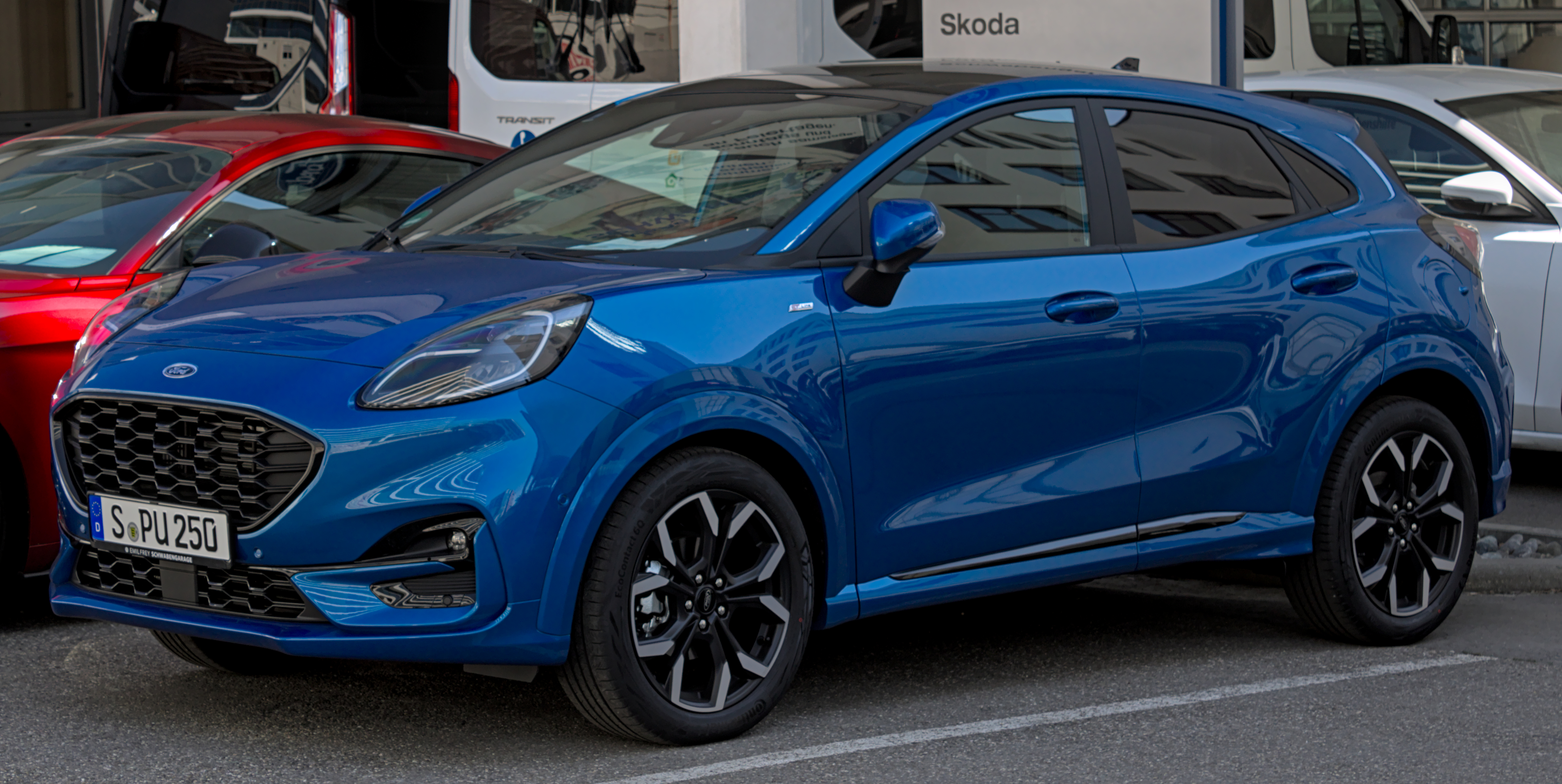 Ford_Puma_(2019) in Stuttgart-Vaihingen